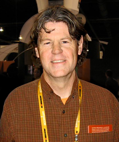 Brad Carvey, legendary Visual Effects artist (Men in Black, Master of Disguse) with pal Philip Nelson during NAB.